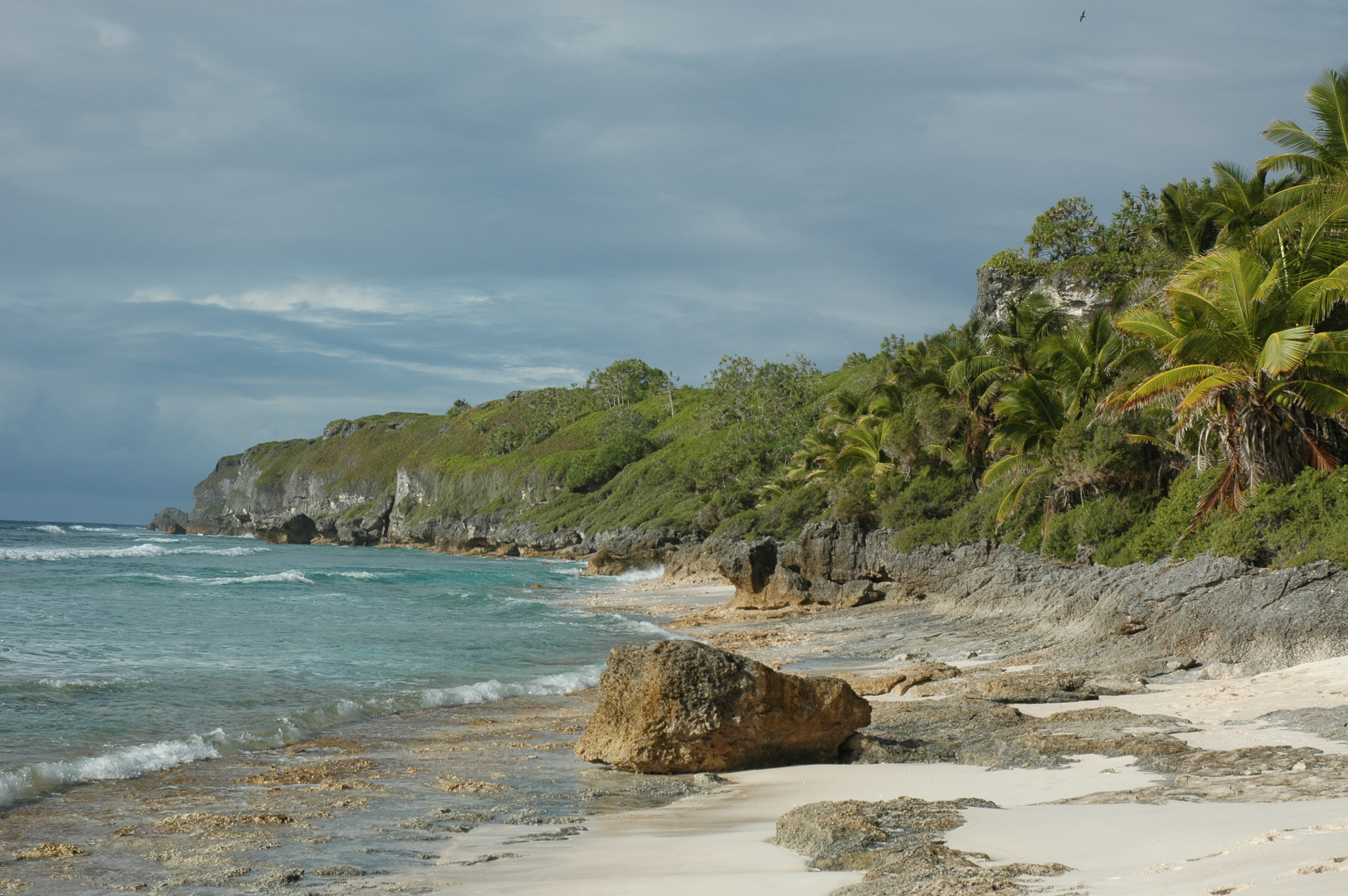 North West Beach. Henderson Island (United Kingdom of Great Britain and Northern Ireland)